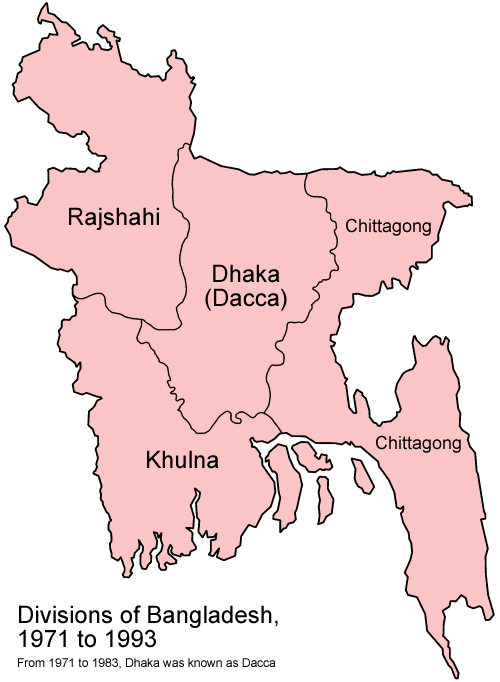 Map of the divisions of Bangladesh as they were from 1971 to 1993. On December 15 1971, Bangladesh achieved independence from Pakistan with these four divisions. Sometime around 1993, Barisal was split from Khulna. Also note that sometime around 1983, the name of Dacca division officially changed to Dhaka. Please let me know if this is incorrect; I'm extrapolating that this is what it was like on independence, but that may well be inaccurate. I don't think so, but it could. Made by User:Golbez.